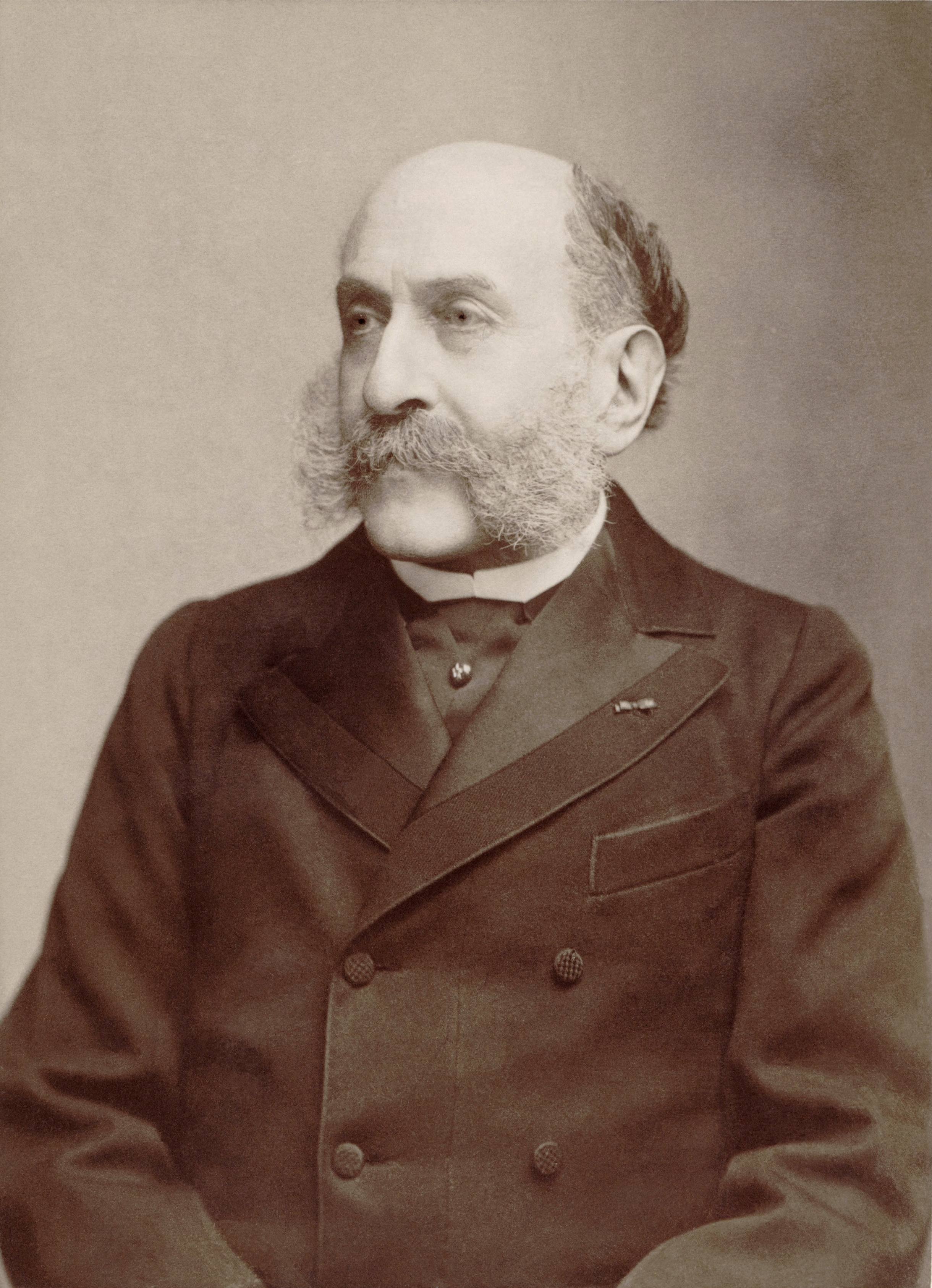 Georges Mathias (1826 - 1910), french pianist and composer.